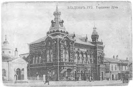 Vladimir city council (duma), 1907. architect Yakov Revyakin.